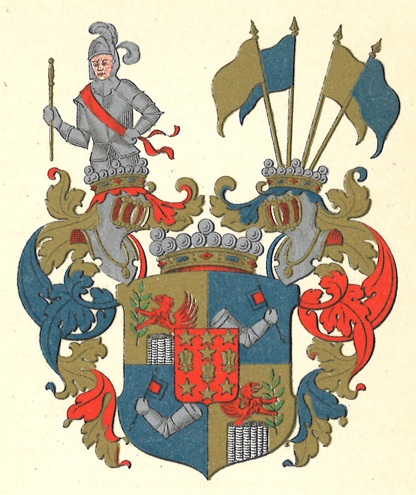 Coat of arms of the Swedish baronial family of von Liewen.